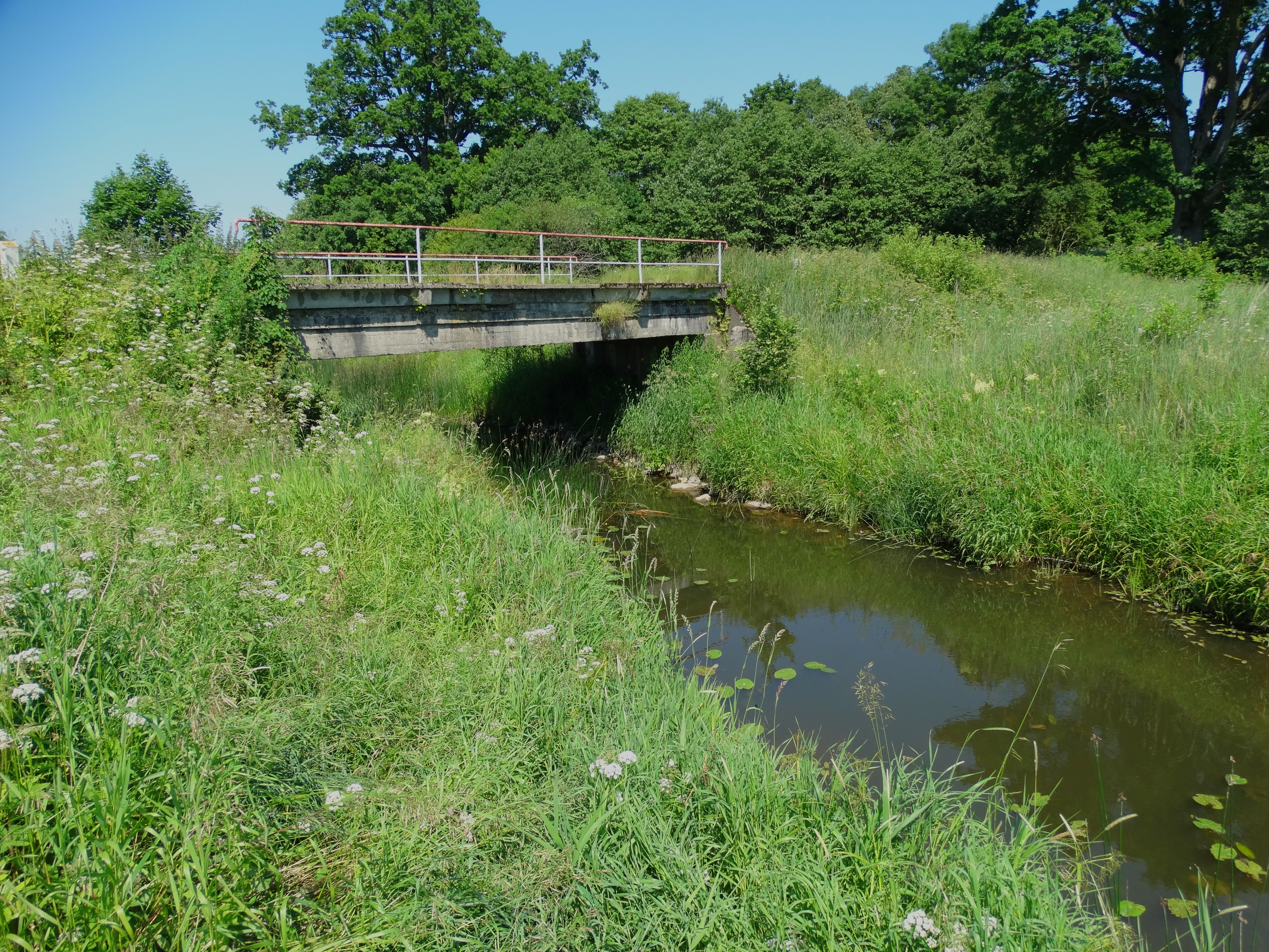 Letausas River by Spraudis, Rietavas Municipality, Lithuania